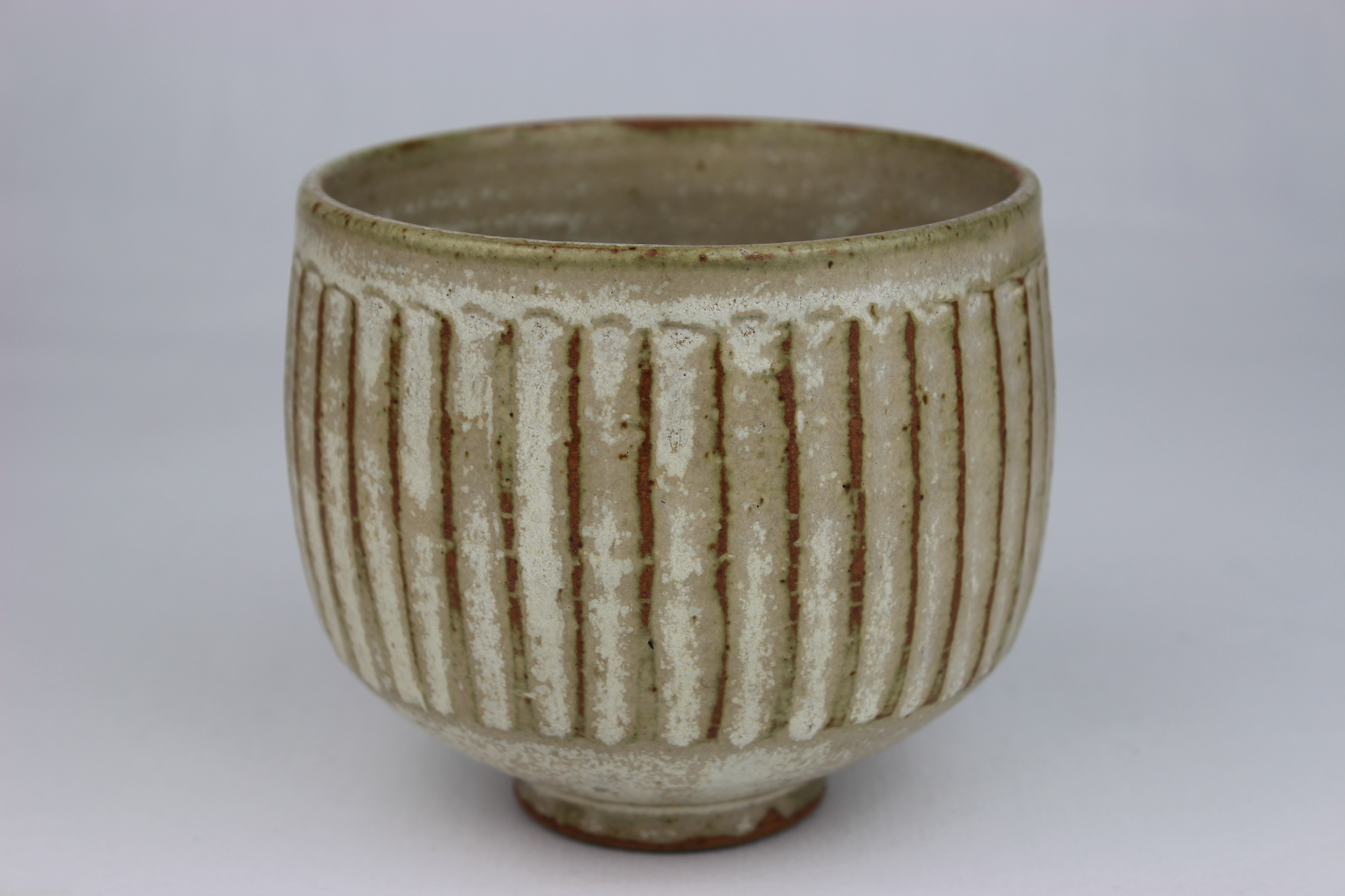 Fluted bowl with cream glaze. From the W.A. Ismay Studio Ceramics Collection at York Art Gallery